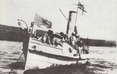 The HMS Fifi at anchor in Lake Tanganyika.